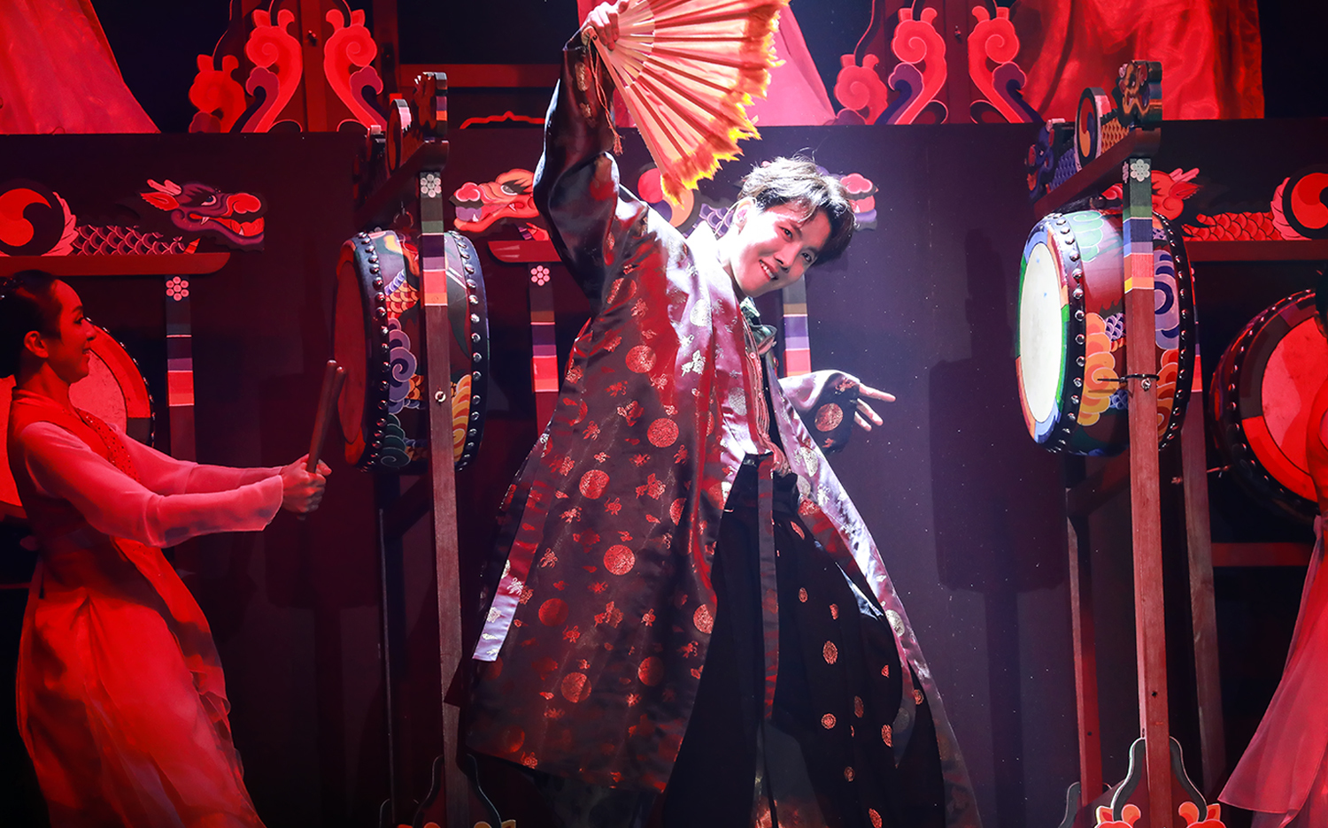 J-Hope at the 2018 MelOn Music Awards